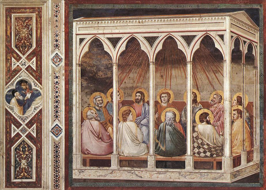 Life of Christ